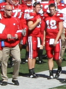 Left to right: An unidentified staffer and University of Wisconsin-Madison backup quarterbacks Scott Tolzien #16 and Dustin Sherer #18 in 2007 on the sidelines in 2007